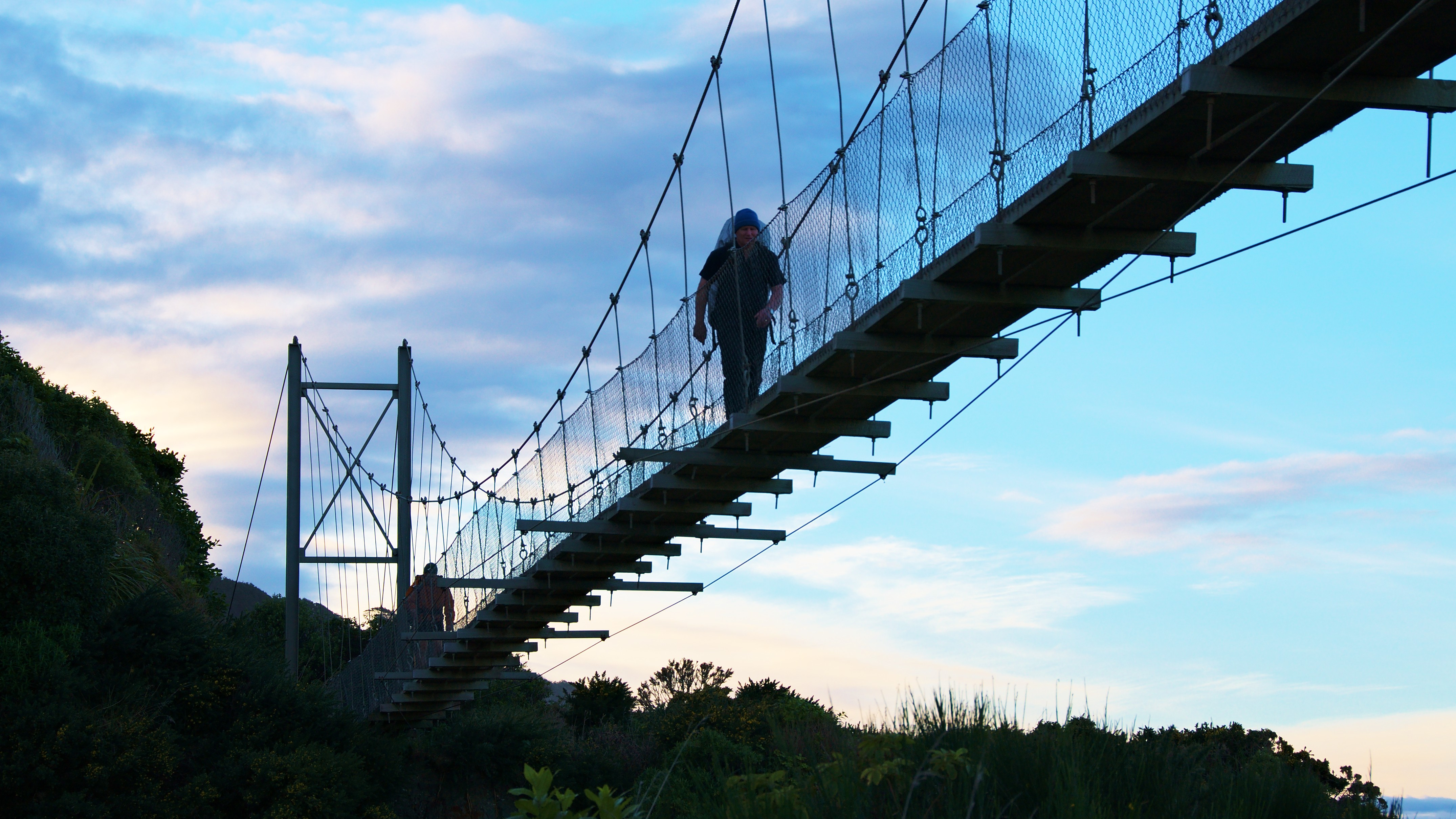 Swing bridge over Waikoau River, Tuatapere Humpridge Track, Southland, New Zealand